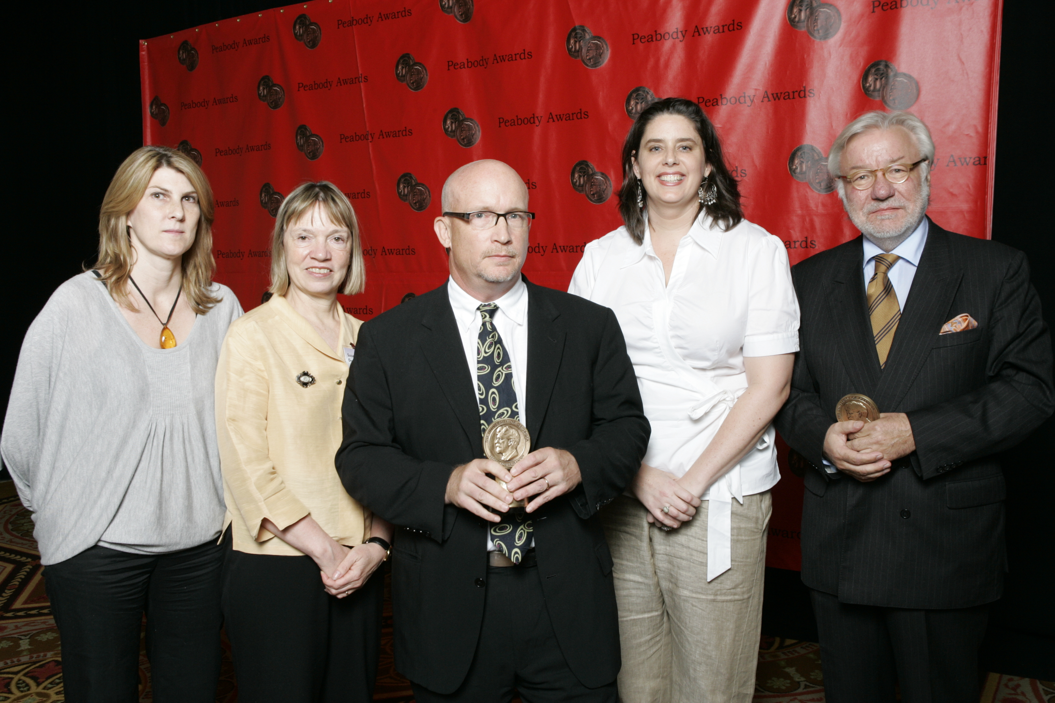 Blaire Foster, Susan Douglas (from the Peabody Board of Jurors), Alex Gibney, Susanna Shipmann and Hans Robert Eisenhauer 67th Annual Peabody Awards Luncheon Waldorf=Astoria Hotel New York, NY USA June 16, 2008